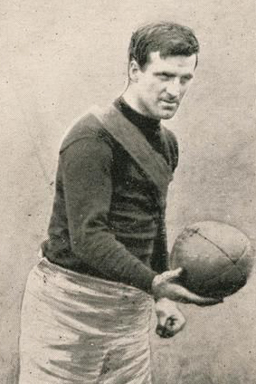 Photograph of Hedley Bryant from the 1910 Weekly Times Victorian Footballer Postcard Series